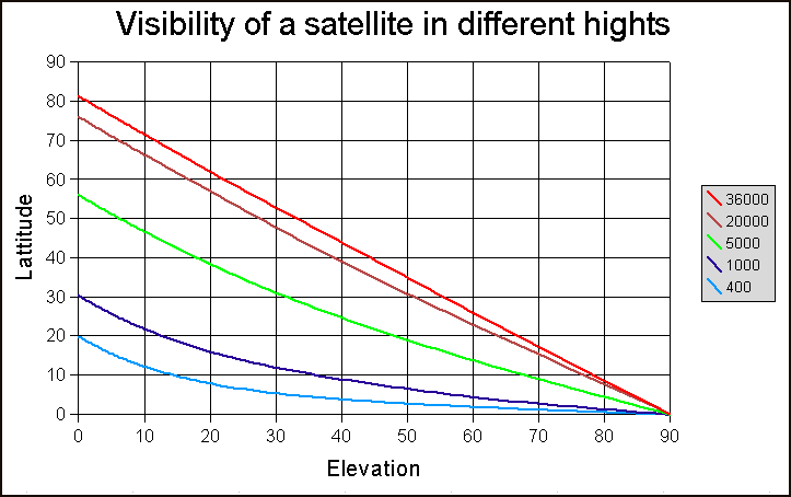 Given a satellite flying in different hights above the equator. What is the size of the footprint of its antenna on earth? For elevation angle you get max. latitude. Creator: Dantor (2005)